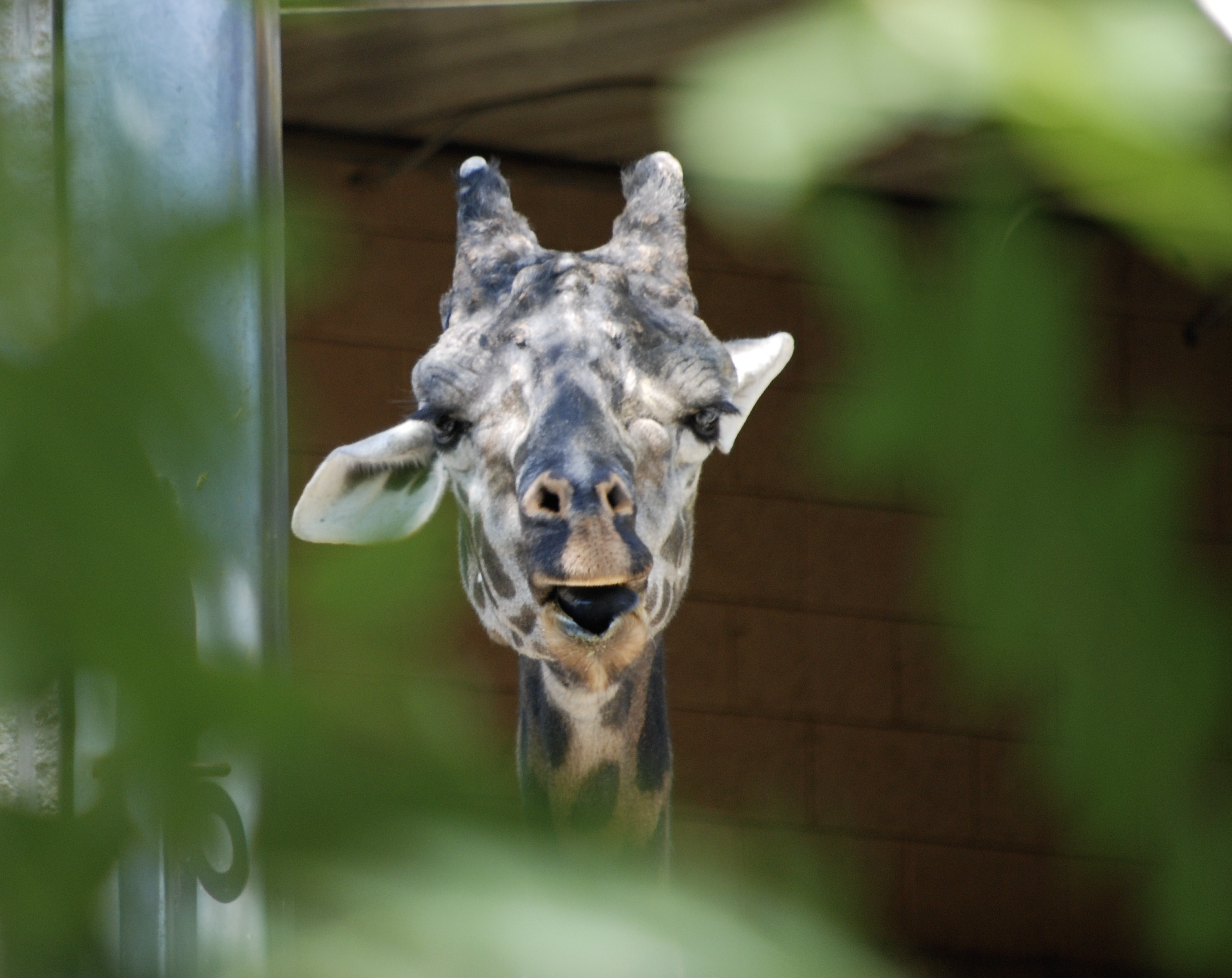 Giraffe foraging in captivity